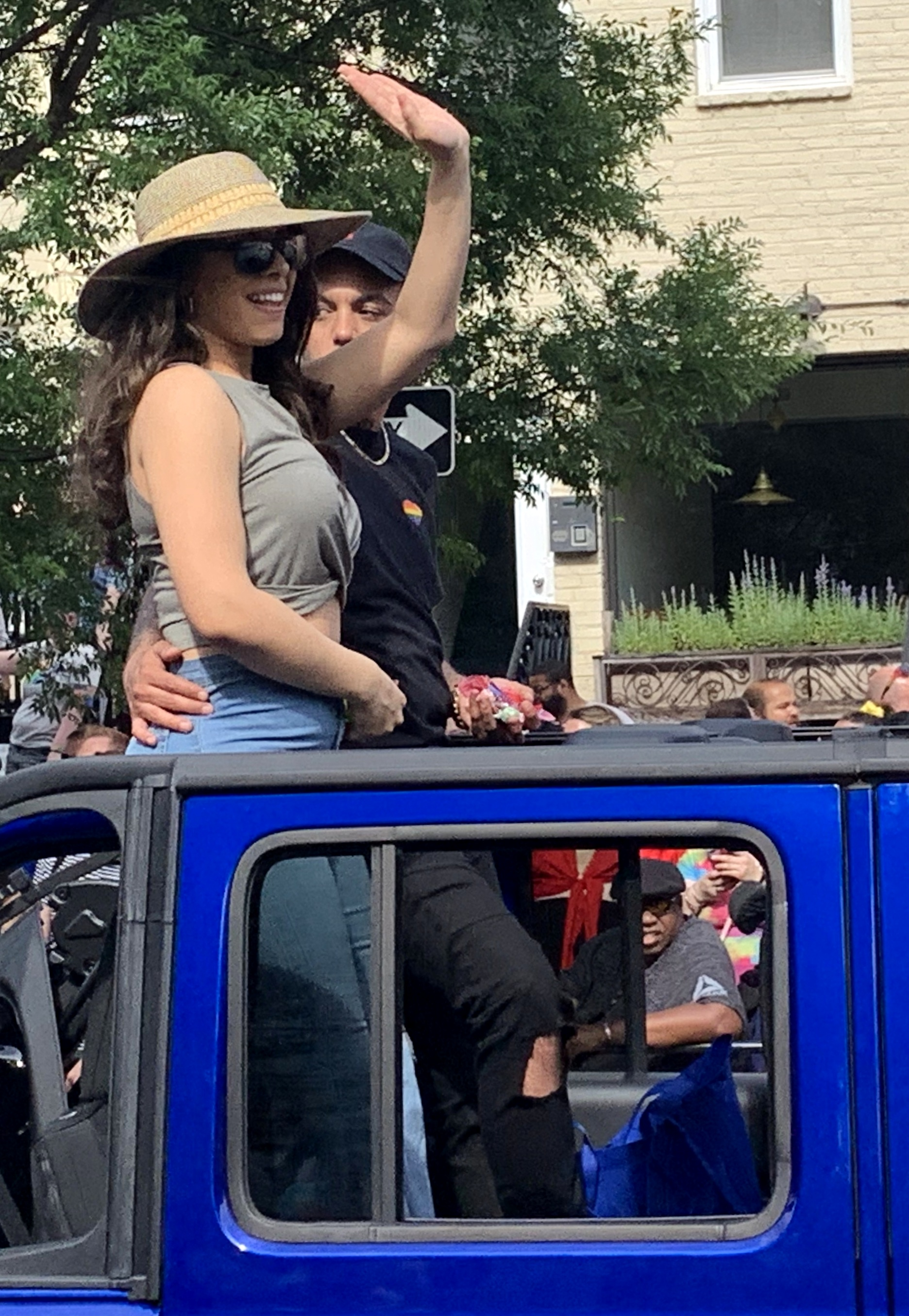 Hailie Sahar at the 2019 Capital Pride Parade in Washington, D.C.